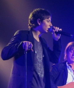 Raphaël in concert